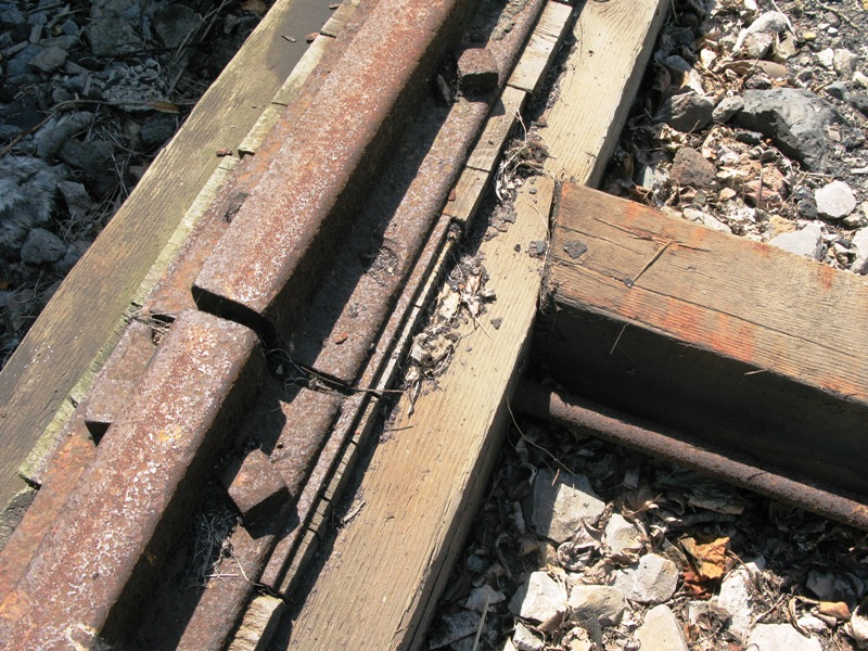 Baulk road showing a transom with tie rod to secure it to the longitudinal baulk. A rail joint secured by a baseplate can also be seen.